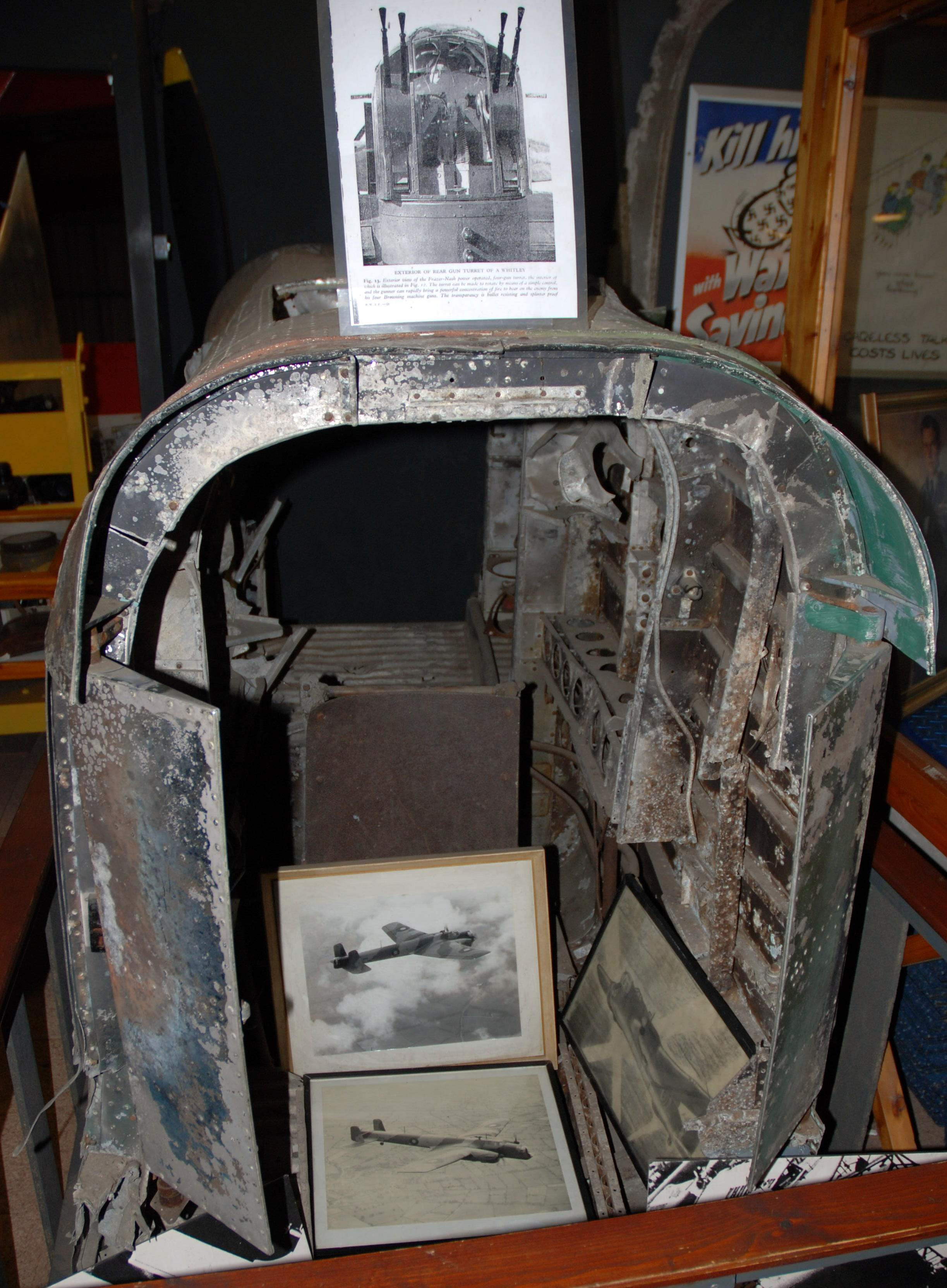 Photo ref; Nikon-D80-2013-DSC_1803 (Edited)